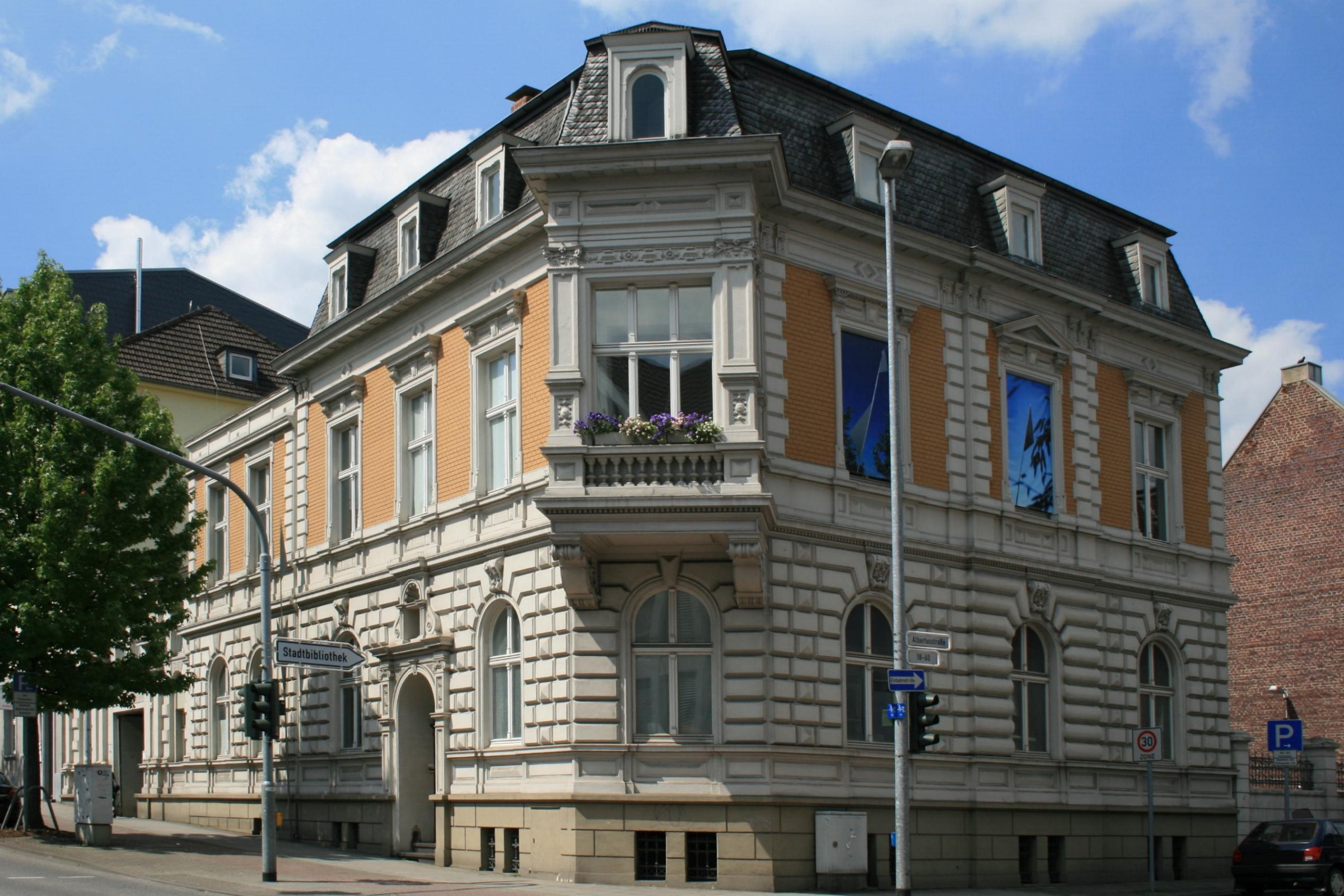 Cultural heritage monument No. St 006 in Mönchengladbach